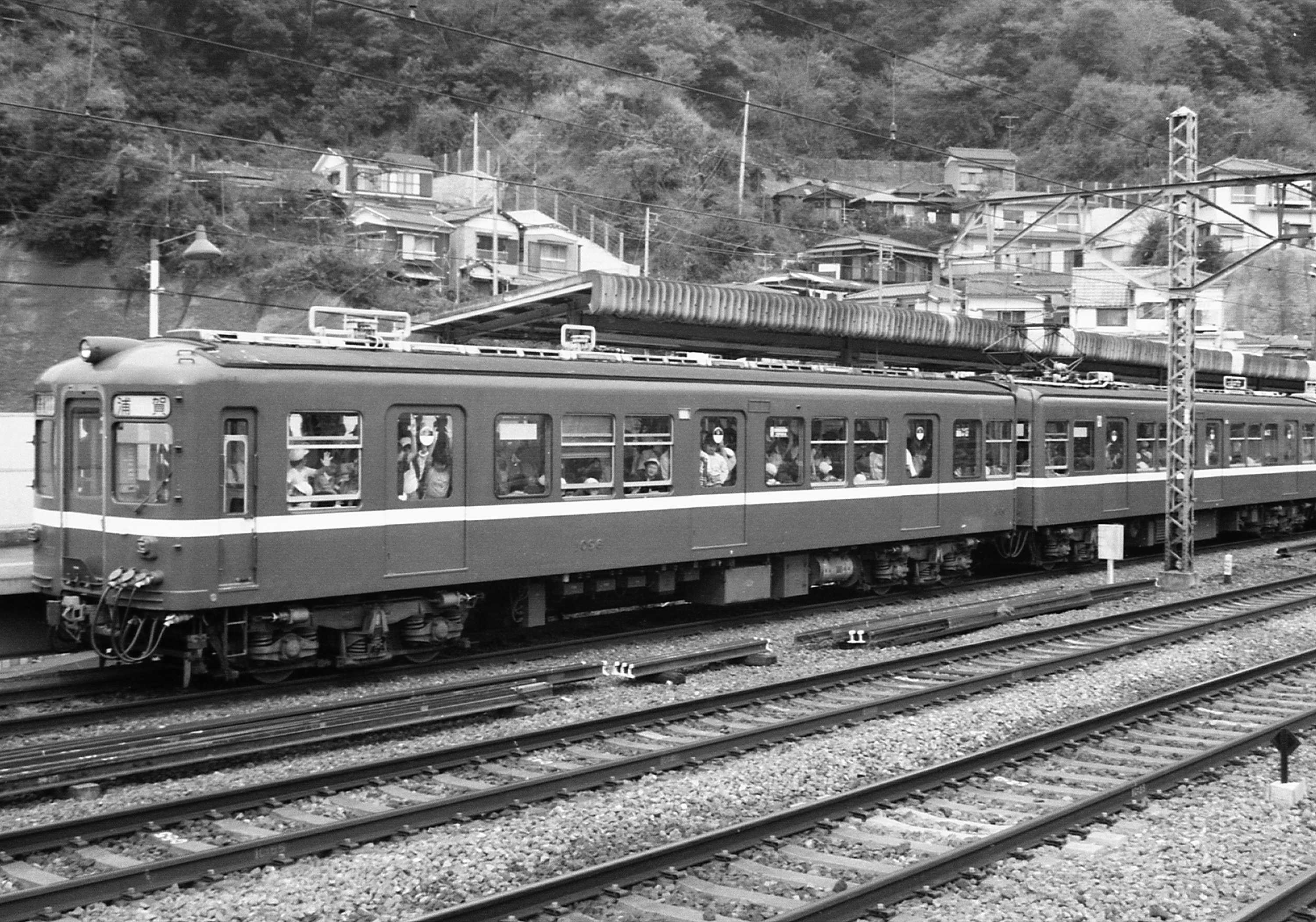 Keikyu 1096 at Hemi. A pillar just after the driver door was narrower than that of other Keikyu 1000 carriages.